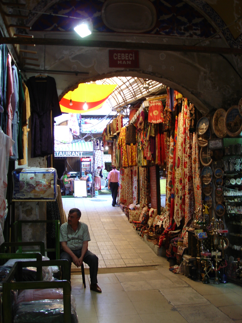 Istanbul Grand Bazaar. Picture by: Giovanni Dall'Orto, May 29 2006.